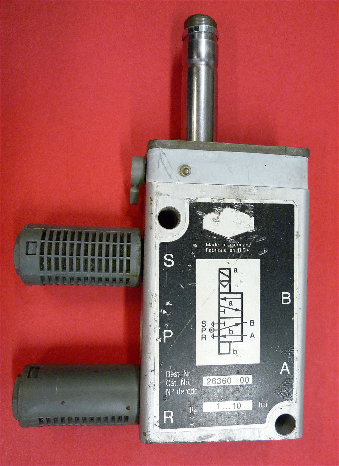 A spool valve for controlling the flow of air in pneumatic circuits. Two of the exhaust ports on the left have air silencers, to reduce the noise. One end of the spool extends out the top.